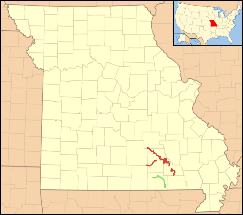 Locator map to show the location of the Ozark National Scenic Riverways (red) and the Eleven Point National Wild and Scenic River (green) in the Ozarks of southern Missouri